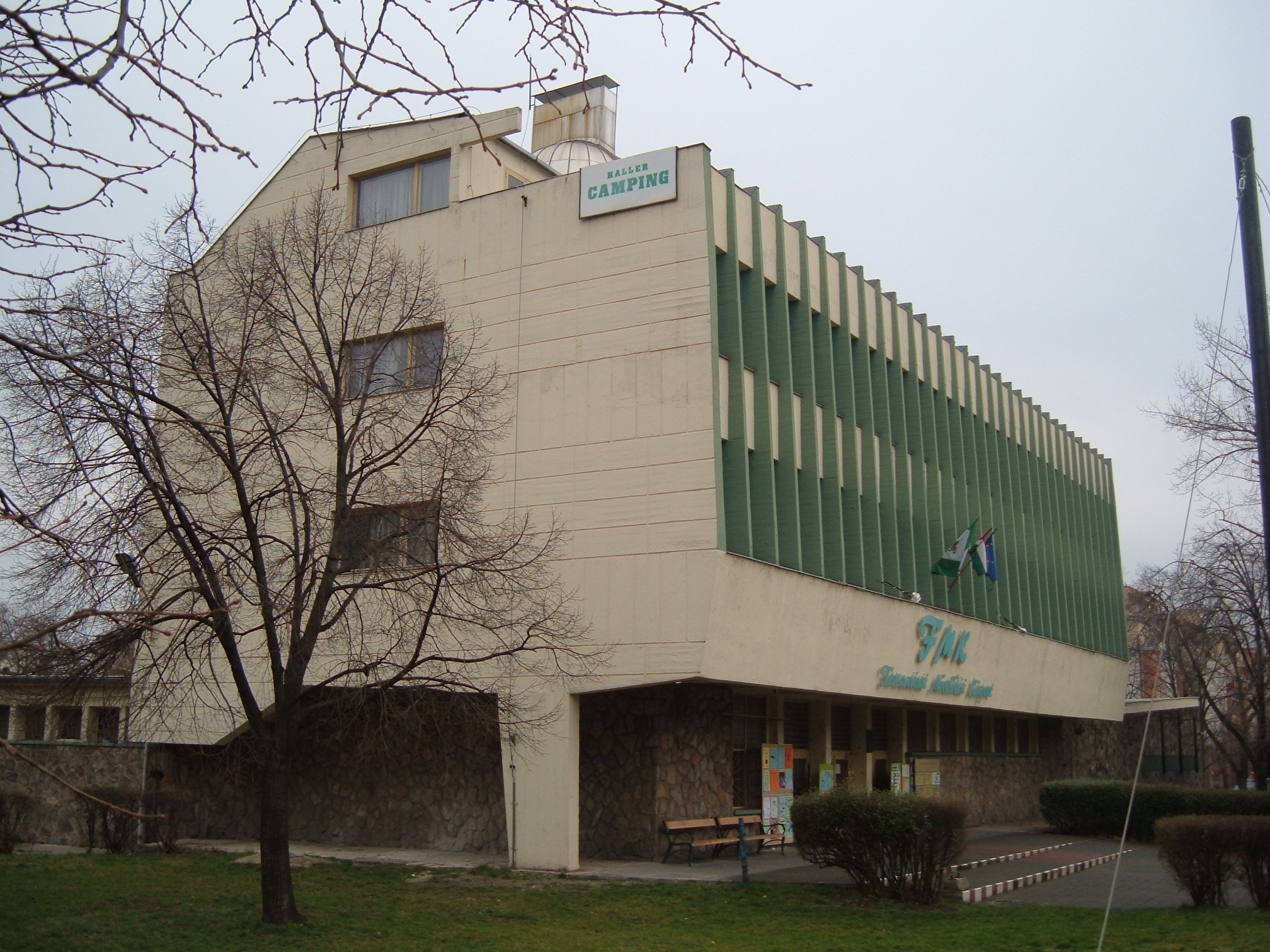 Cultural Center of Ferencváros (Budapest District 9)